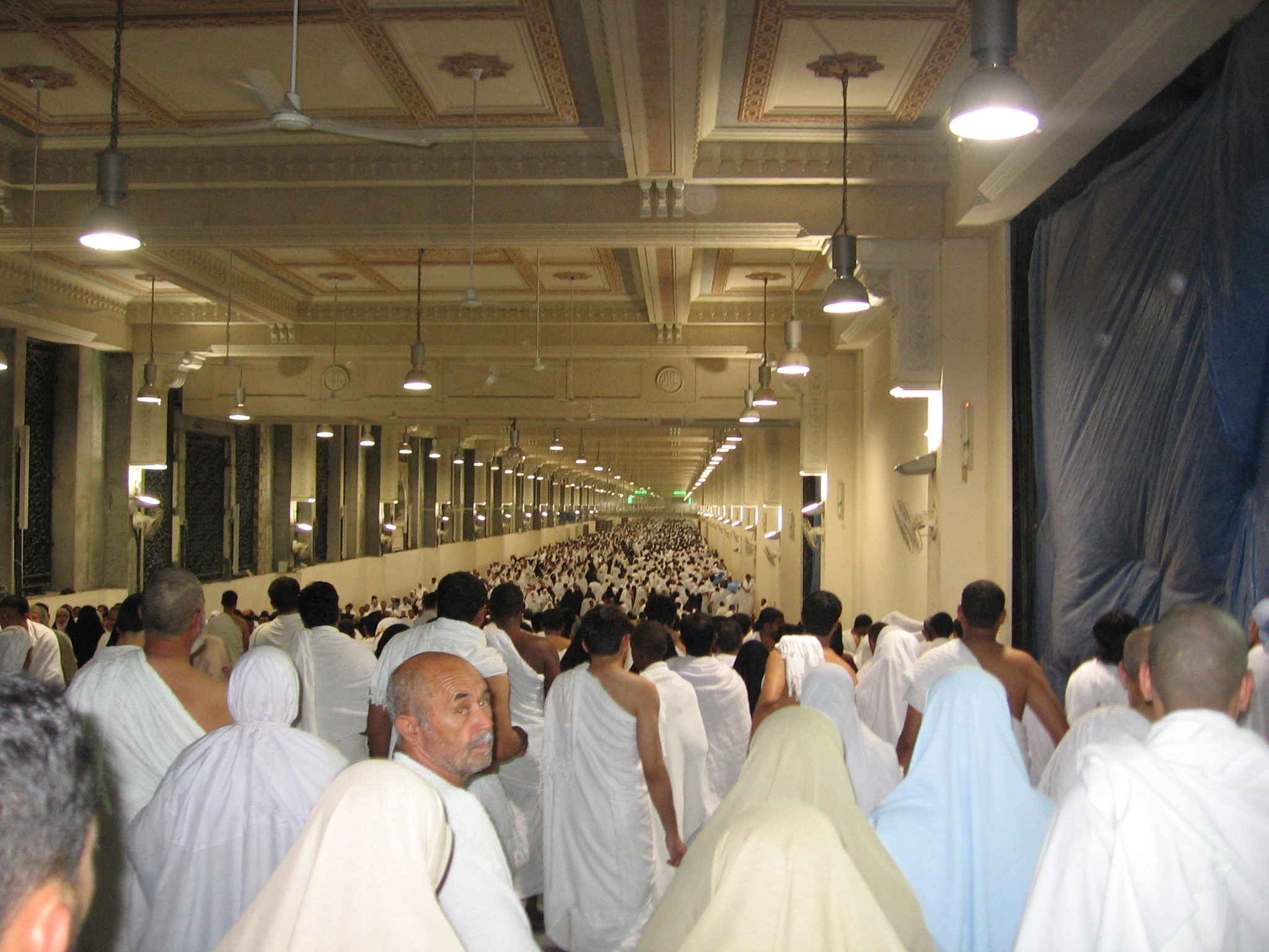 Masjid al-Haram in mecca Saudi Arabia